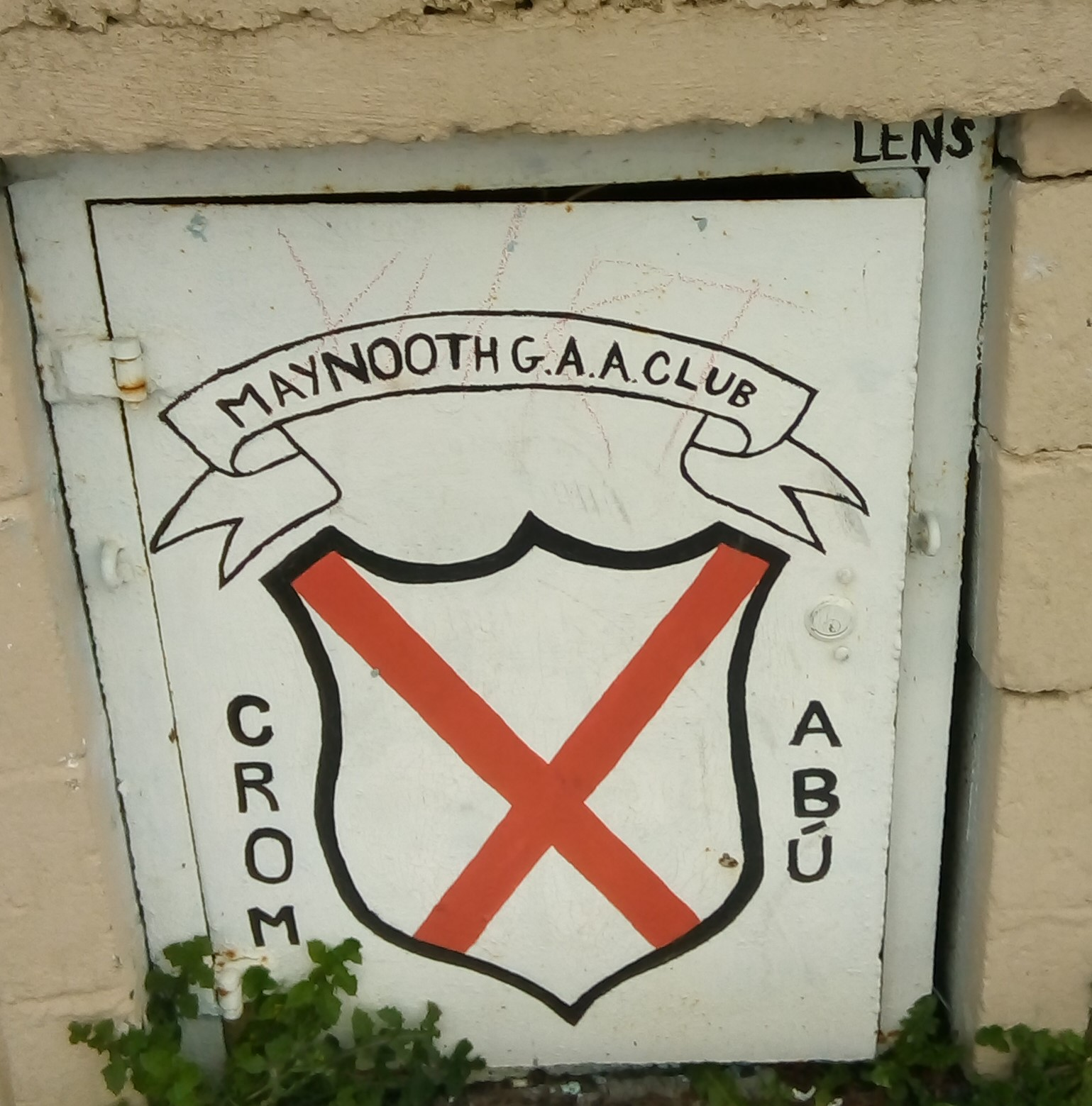 Maynooth GAA graffito